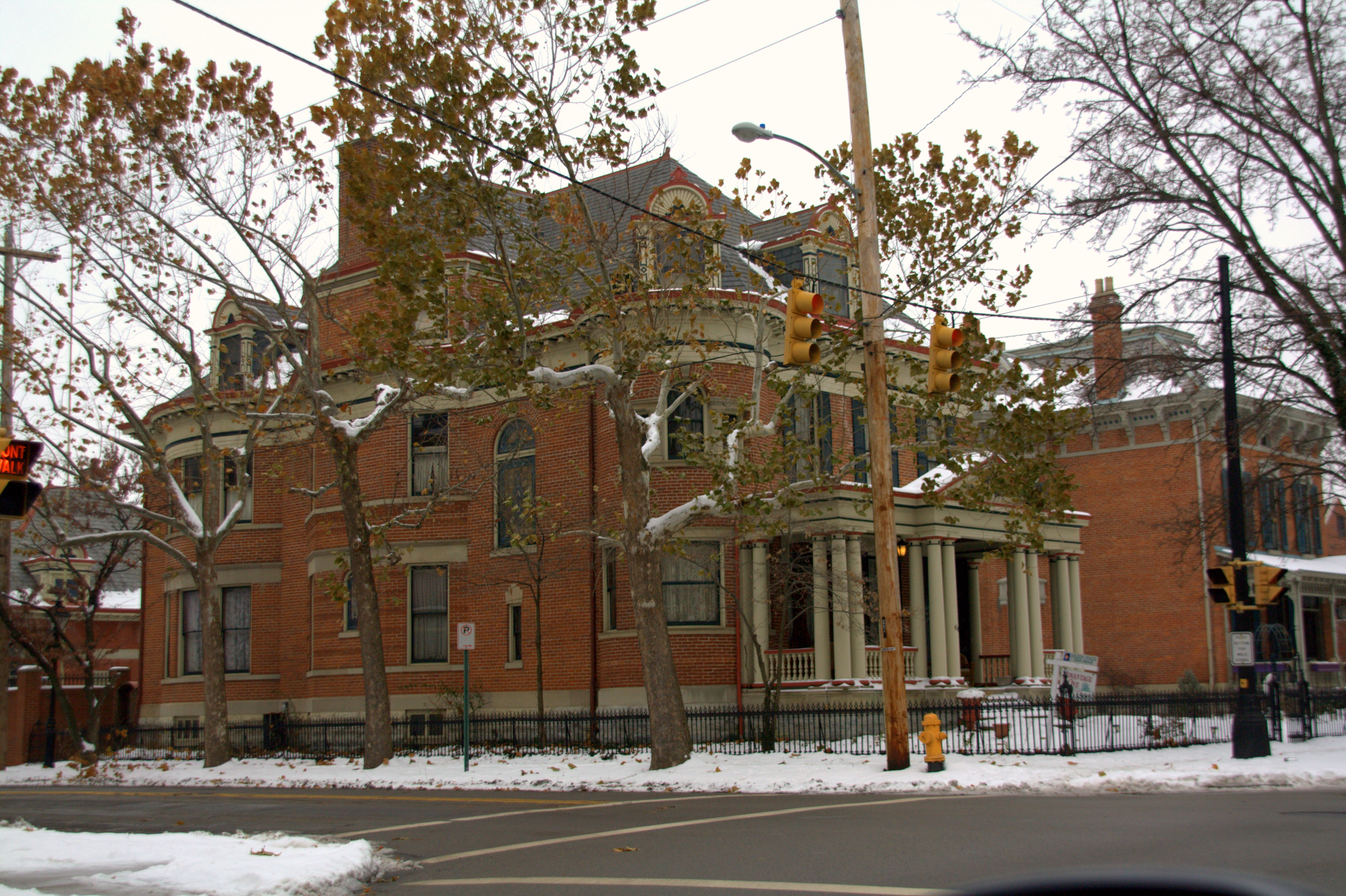 Rentschler House in Hamilton, OH. Photo by Greg Hume